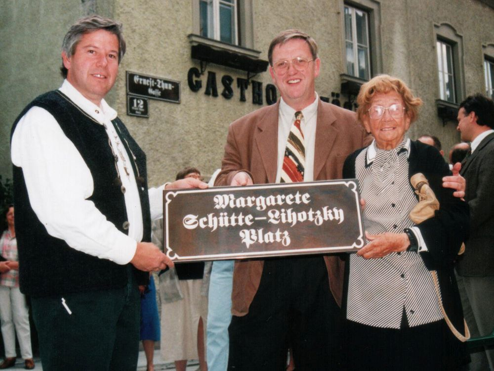 Margarete Schütte-Lihotzky bei der Eröffnung des Margarete-Schütte-Lihotzky-Platzes in Radstadt.